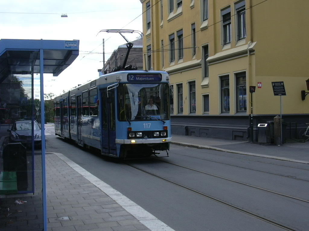 A tram in Oslo, Norway.